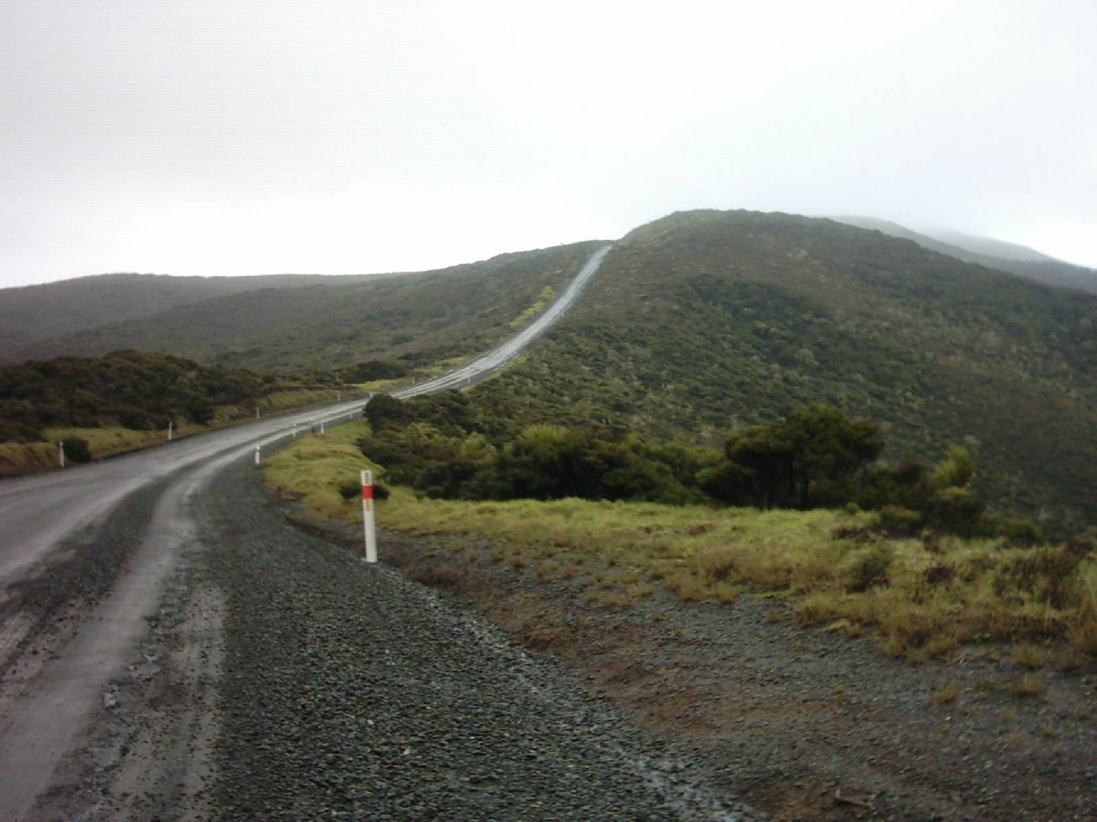 The 'metal' road (actually State Highway 1) to Cape Reinga in Northland, New Zealand. 'Metal' is an old term for gravel, which is still used commonly in New Zealand. The depicted road was subsequently extended with asphalt seal ~ 2010 until it reached the Cape.